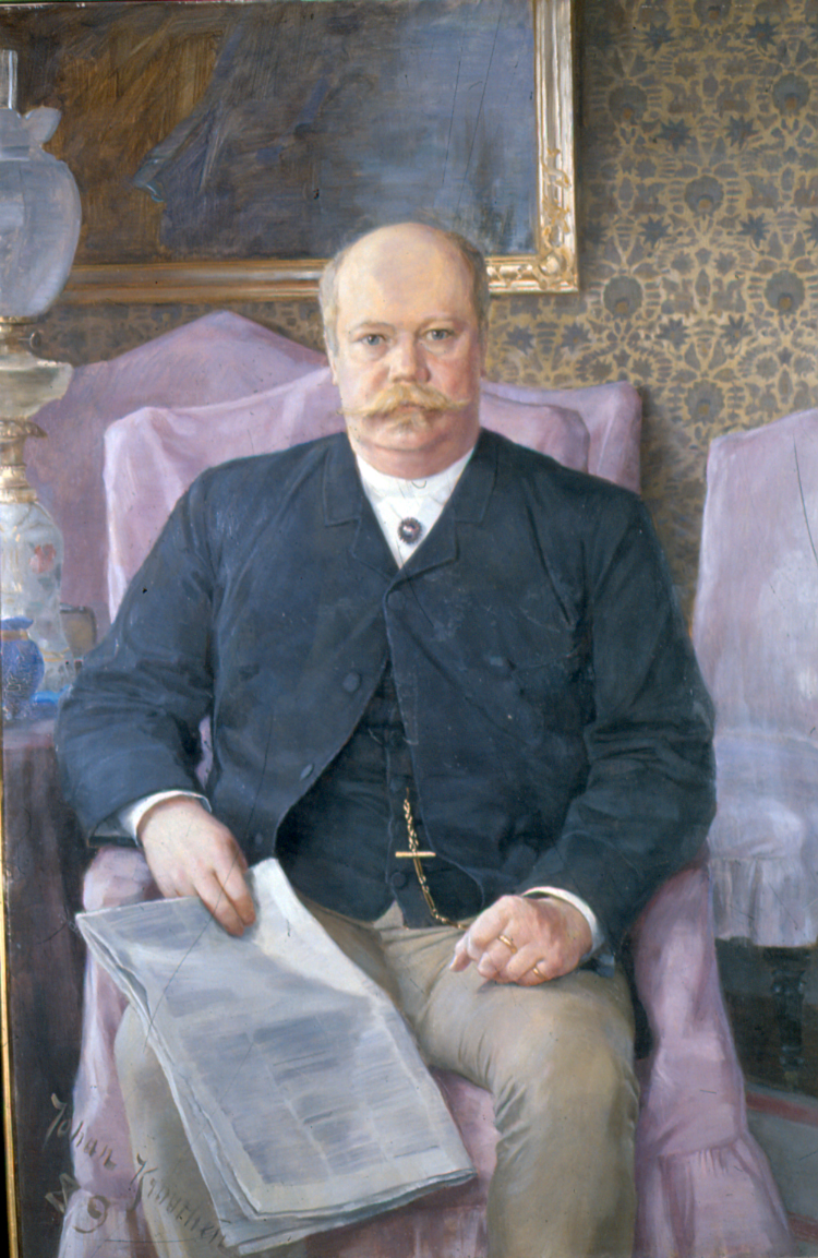 Portrait of Anton Ridderstad, founder of Östergötland County Museum, Linköping, Sweden.